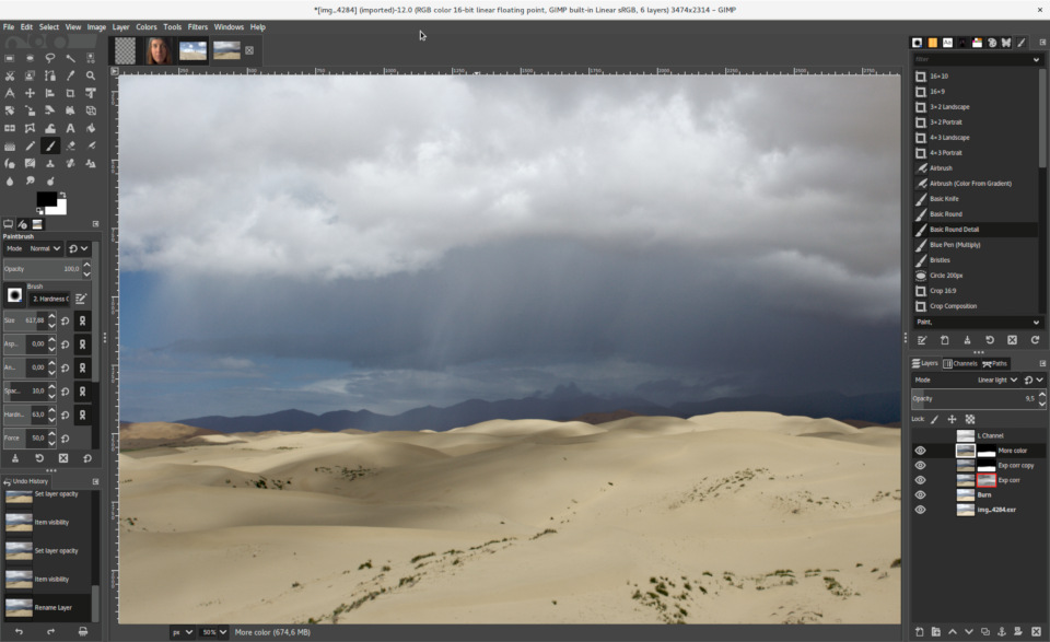 GIMP 2.10 with dark theme and symbolic icons. Taken directly from the GIMP 2.10 Release Notes.